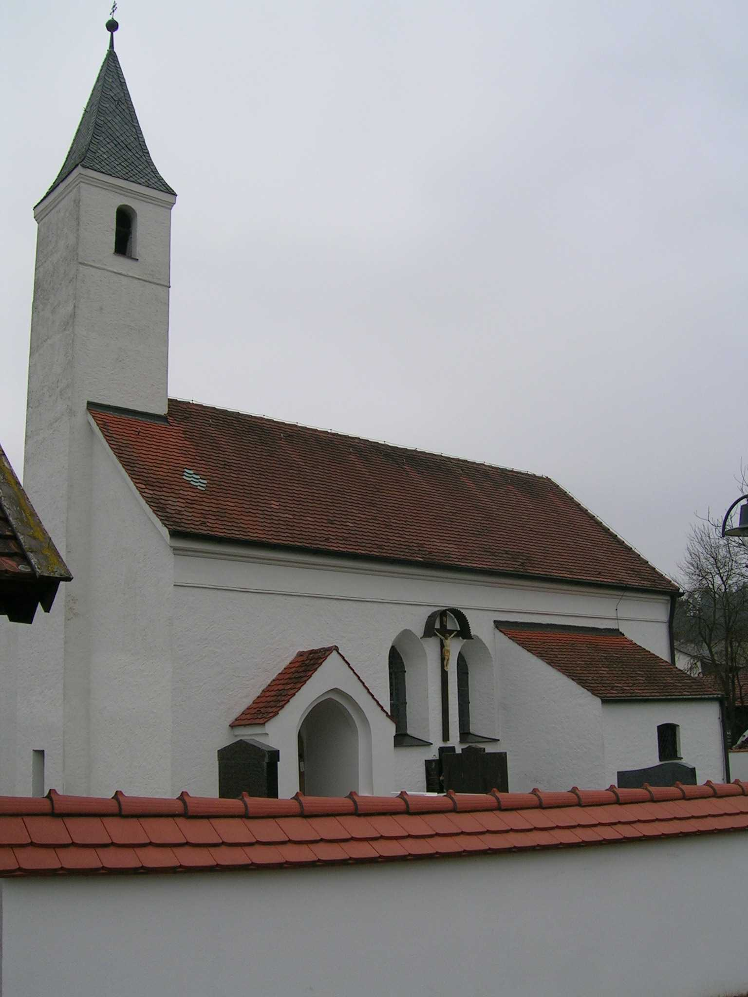 Church in Enghausen, Municipality Mauern